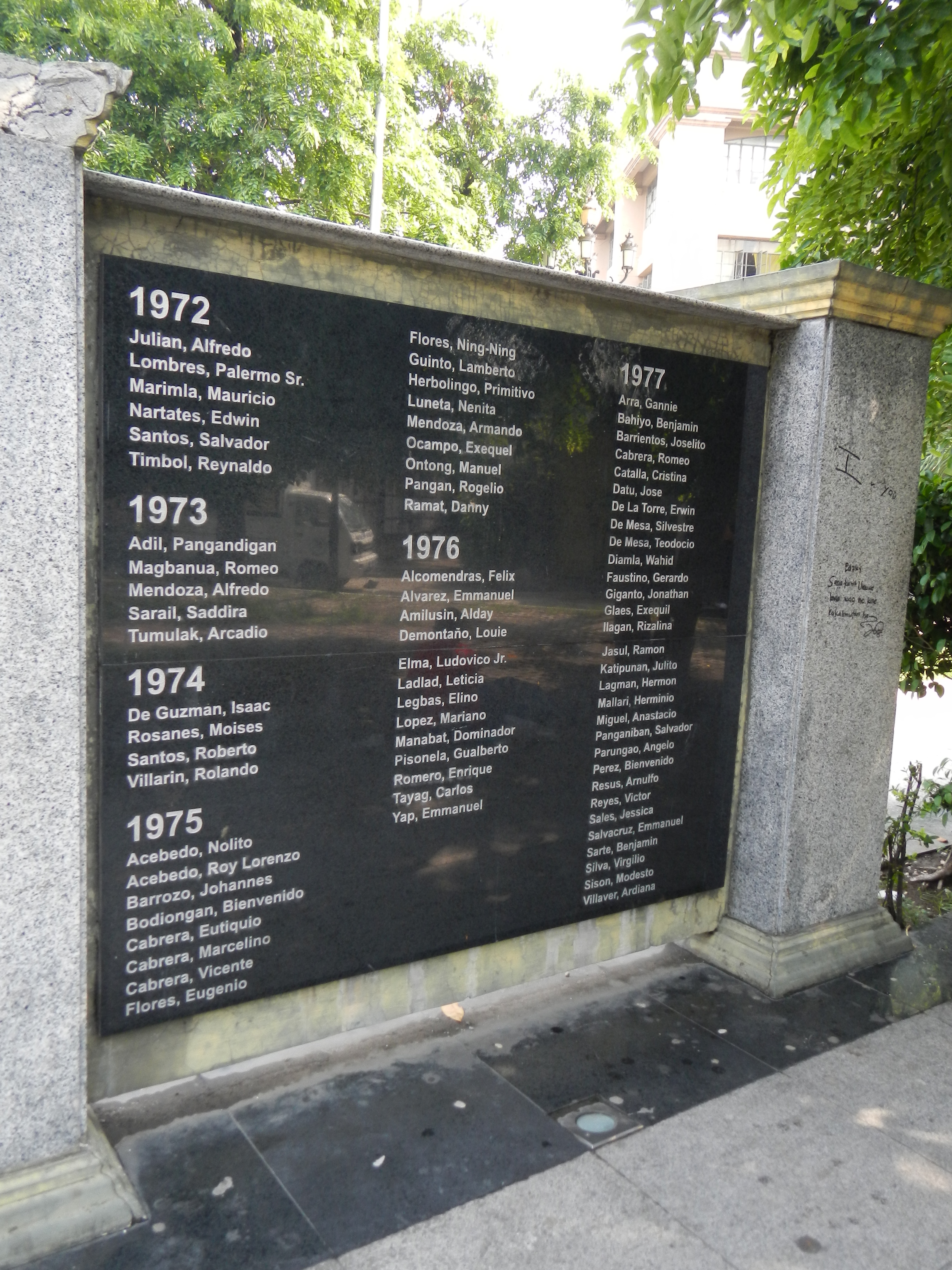 Victims of Martial law Memorial Wall, Manila by Mayor Jose L. Atienza, Jr. , September 21, 2006 inaugurated by Sen. Nene Pimentel at the inauguration on September 21, 2006 at the Mehan Gardens, Manila [1] - 39th anniversary of Martial Law[2] Memorial Wall for ML Victims Unveiled[3]Victims of Martial Law Memorial Wall is a project of the City of Manila under the leadership of Mayor Jose L. Atienza, Jr.[4] Mayor Atienza also presided over the formal renaming of Hospital St. between the Bonifacio Shrine and Universidad de Manila campus to Justice Cecilia Munoz-Palma St.[5] The Memorial Wall is 4 large blocks of black marble, where the names of martial law victims are etched. A plaque explaining the memorial is on one end. ---- Martial law in the Philippines[6] Martial law in the Philippines (Tagalog: Batas Militar sa Pilipinas) refers to the period of Philippine history wherein Philippine Presidents and Heads of state declared a proclamation to control troublesome areas under the rule of the Military, and it is usually given when threatened by popular demonstrations, or to crack down on the opposition. Martial law can also be declared in cases of major natural disasters, however most countries use a different legal construct like "state of emergency".